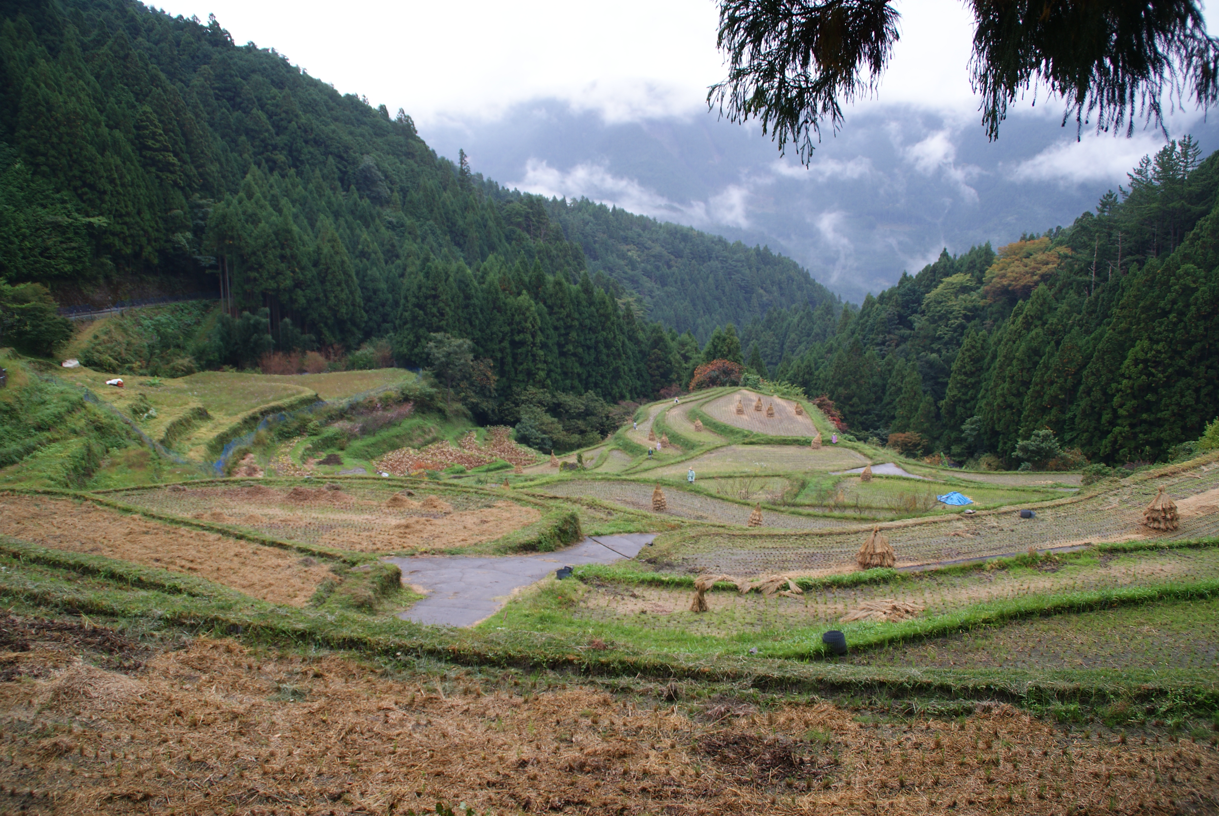 table mountain rice field / 徳島県上勝町にある棚田